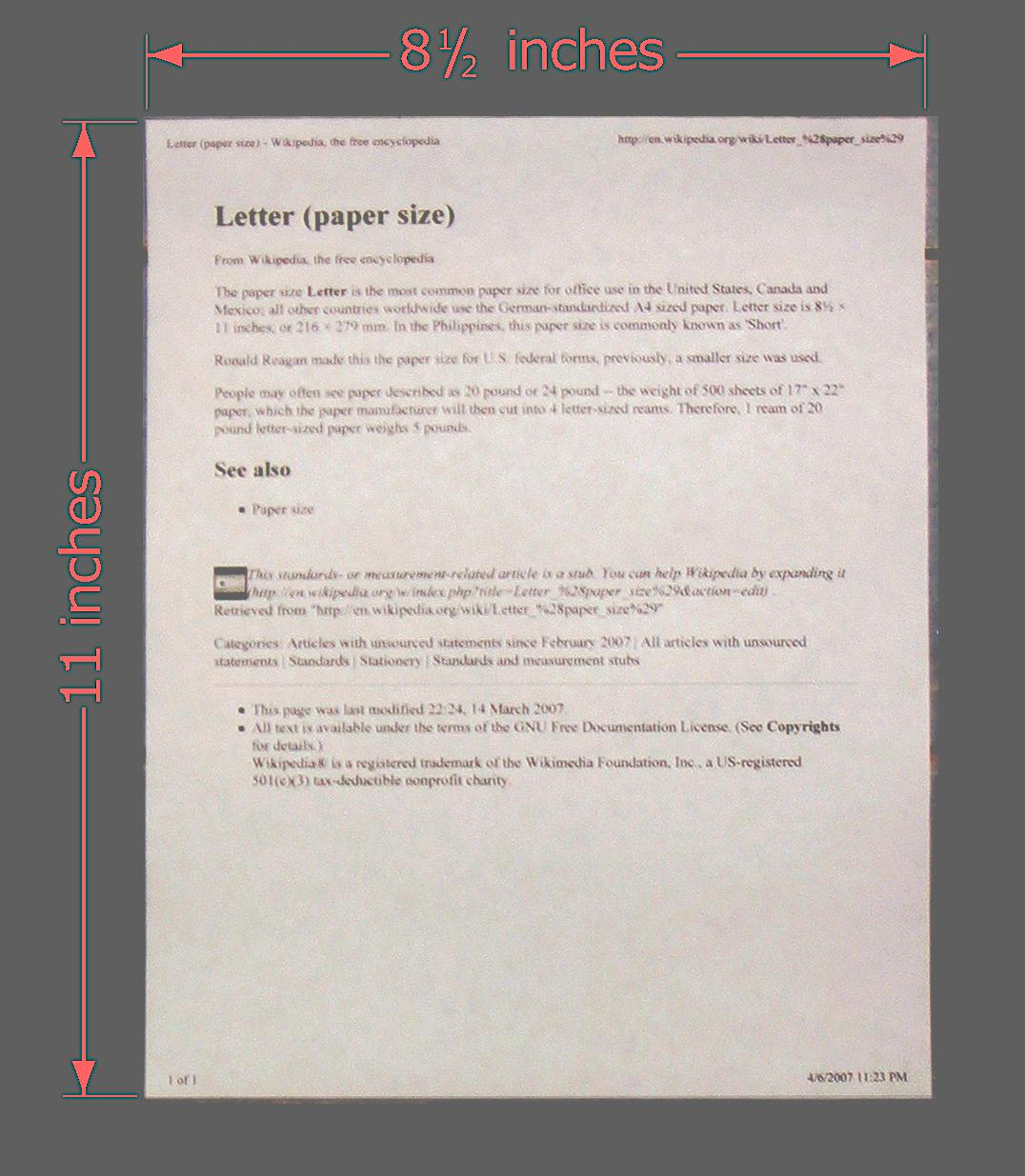 I took this photo to document what a standard sheet of letter printer paper looks like. It has the Wikipedia article on letter paper printed on it.